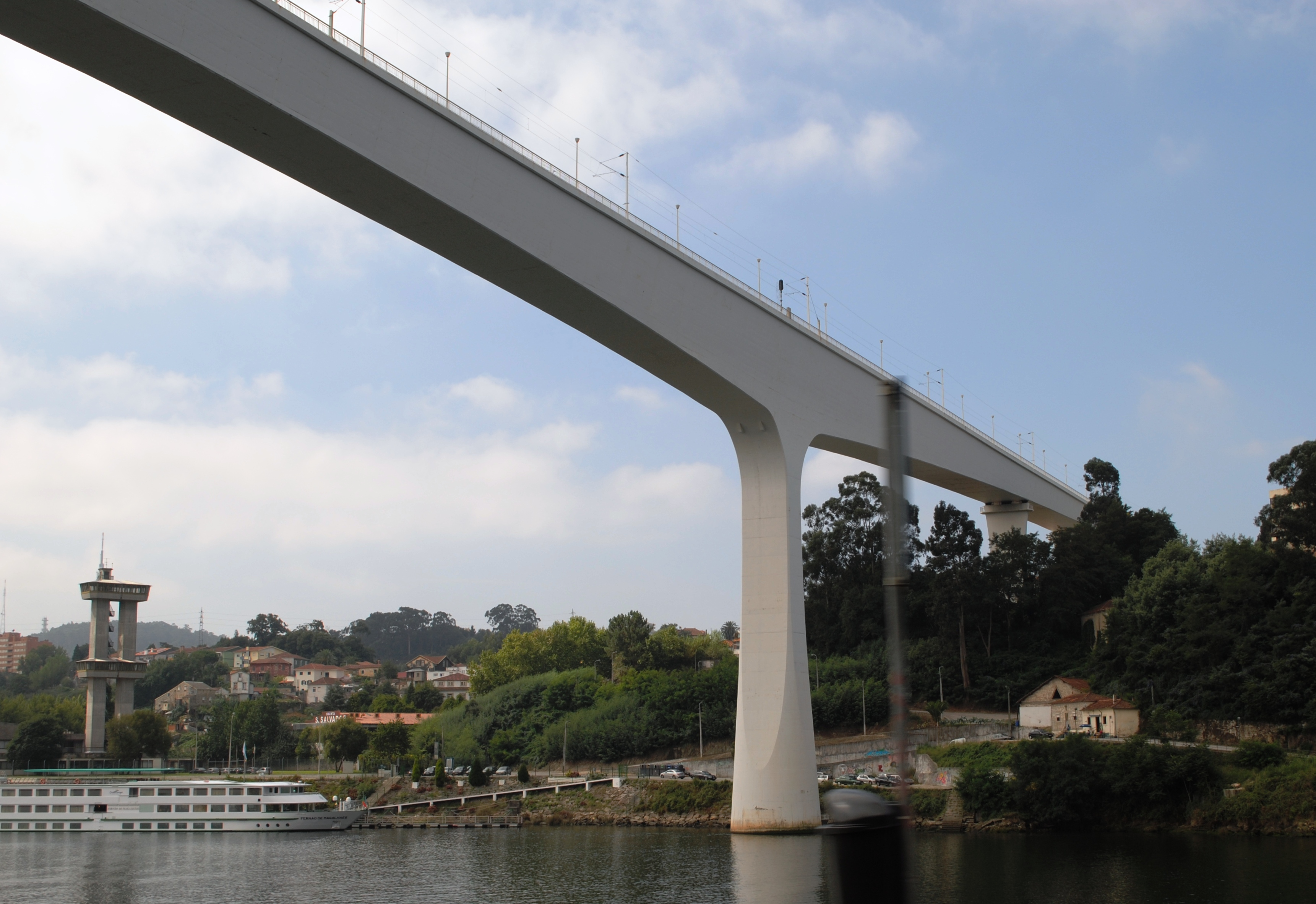 See title and categories.